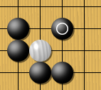 An example of geta in the game of go